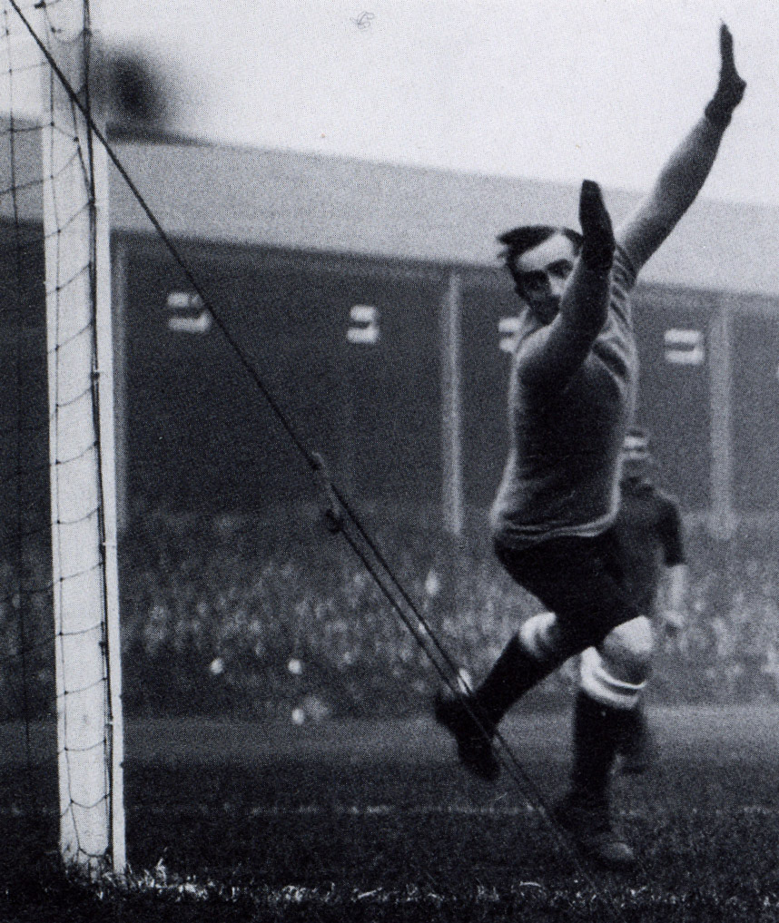 The association footballer Teddy Davison pictured on October 4th 1913 in League match against Liverpool.